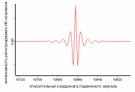 Interferogram measured with a FTIR spectrometer